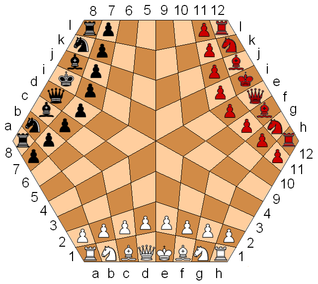 Image of a three-handed chess-board, with pieces in initial position.